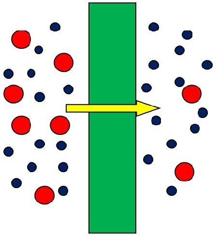 Schematic of size